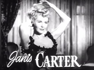 Cropped screenshot of Janis Carter from the trailer for the film My Forbidden Past.